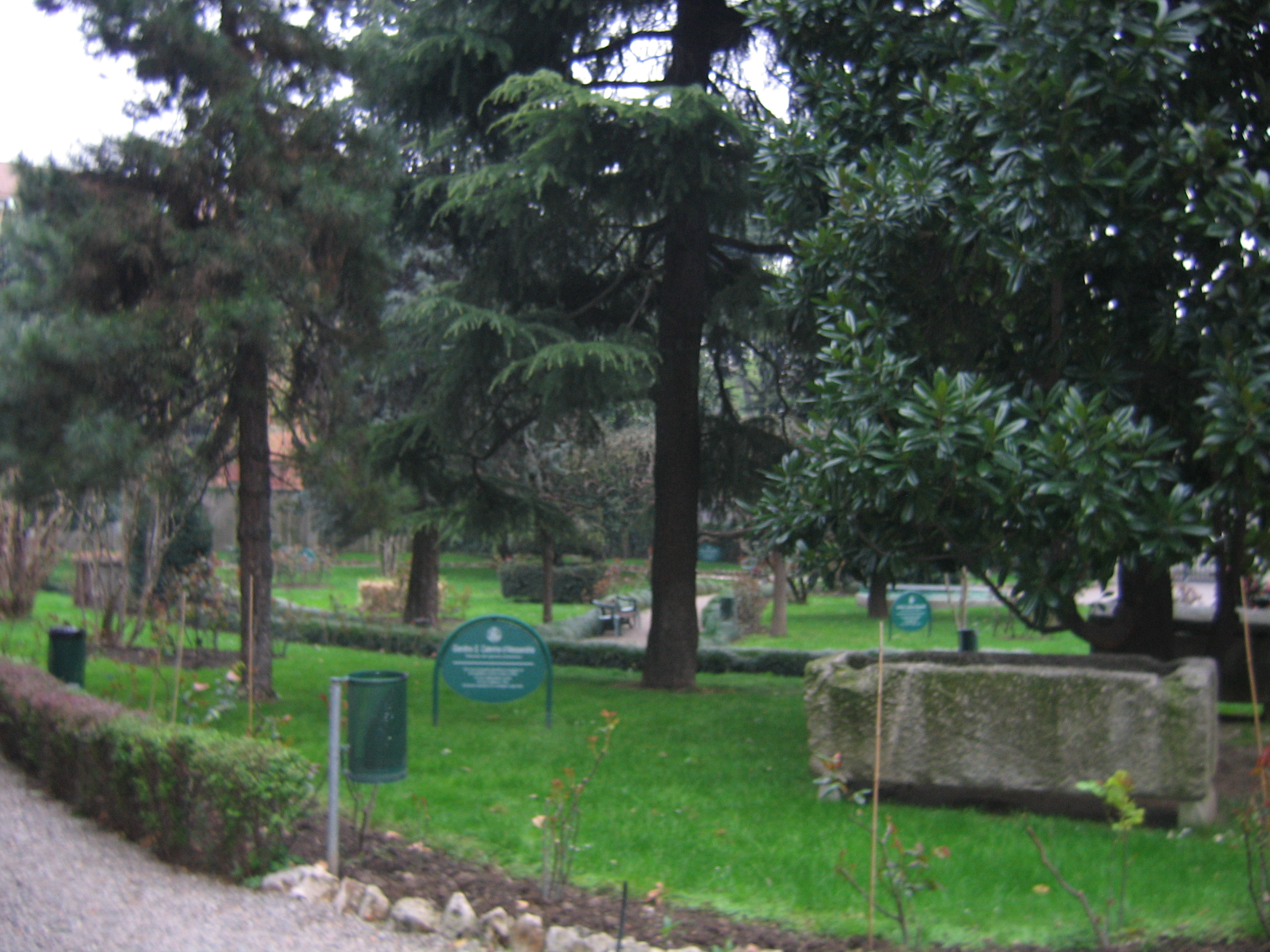 "Giardino delle vergini" (The Virgins Garden). Access permitted only to female students.